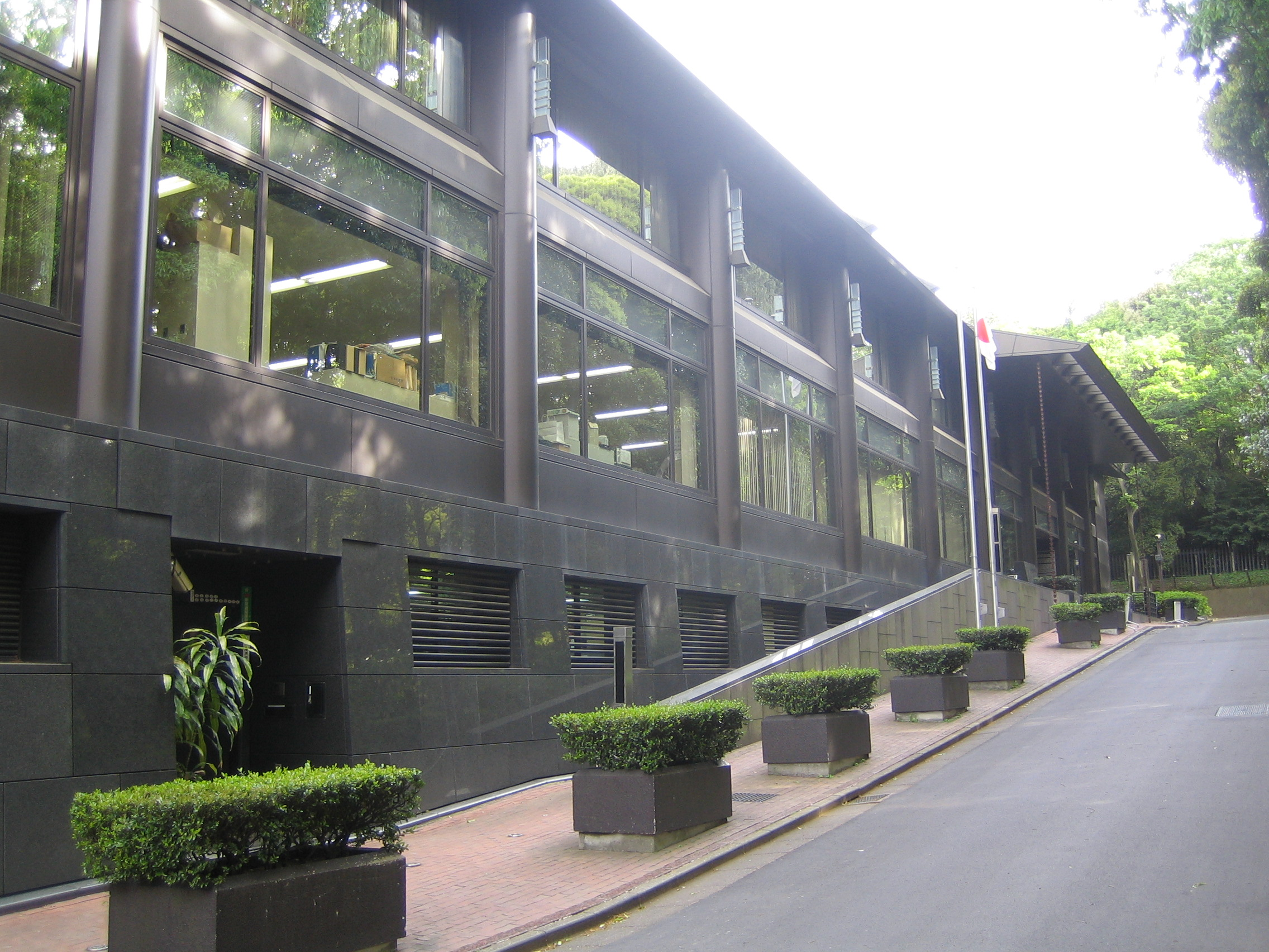 Jinjahoncho (神社本庁), in Shibuya, Tokyo|Shibuya, Tokyo, Japan